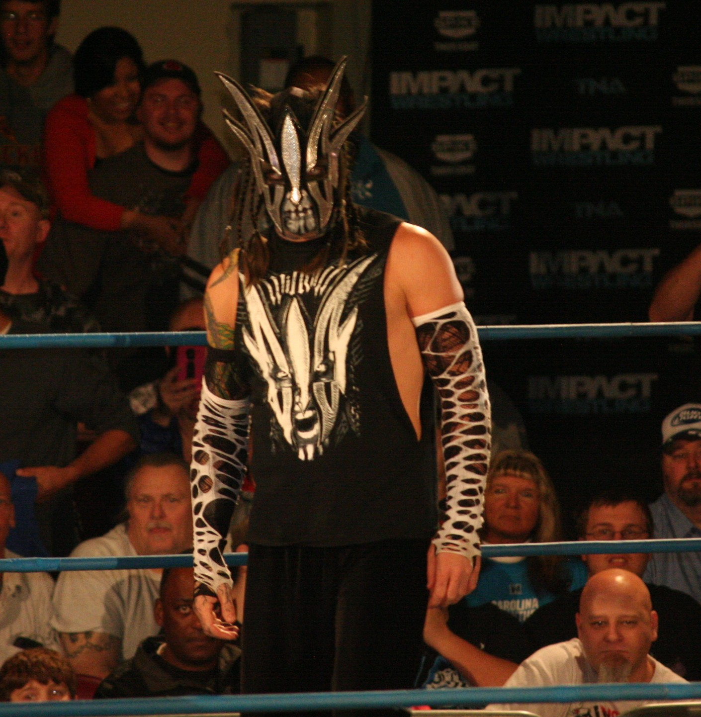 Jeff Hardy in his Willow persona at the TNA IMPACT house show